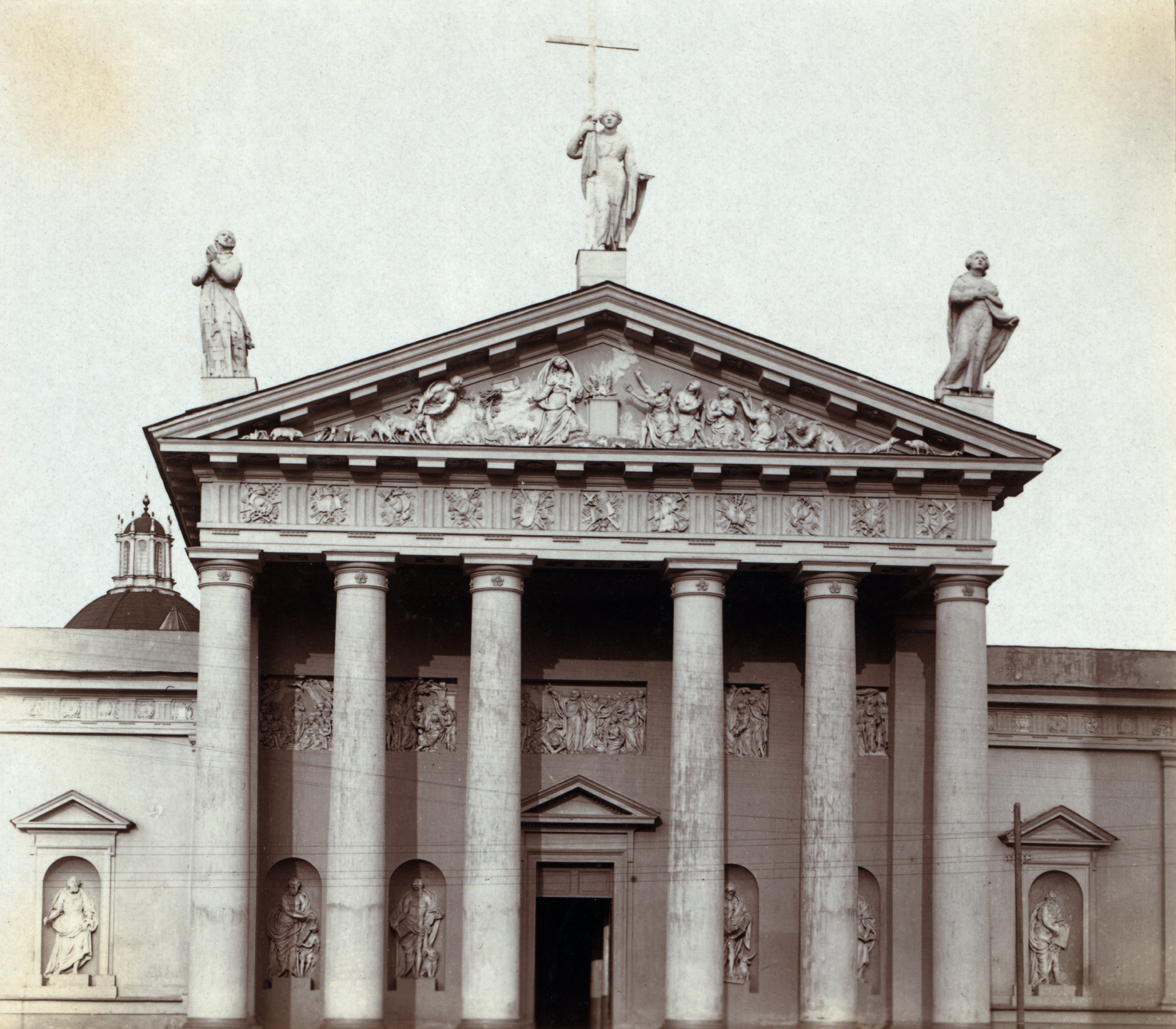 Cathedral in Vilna.